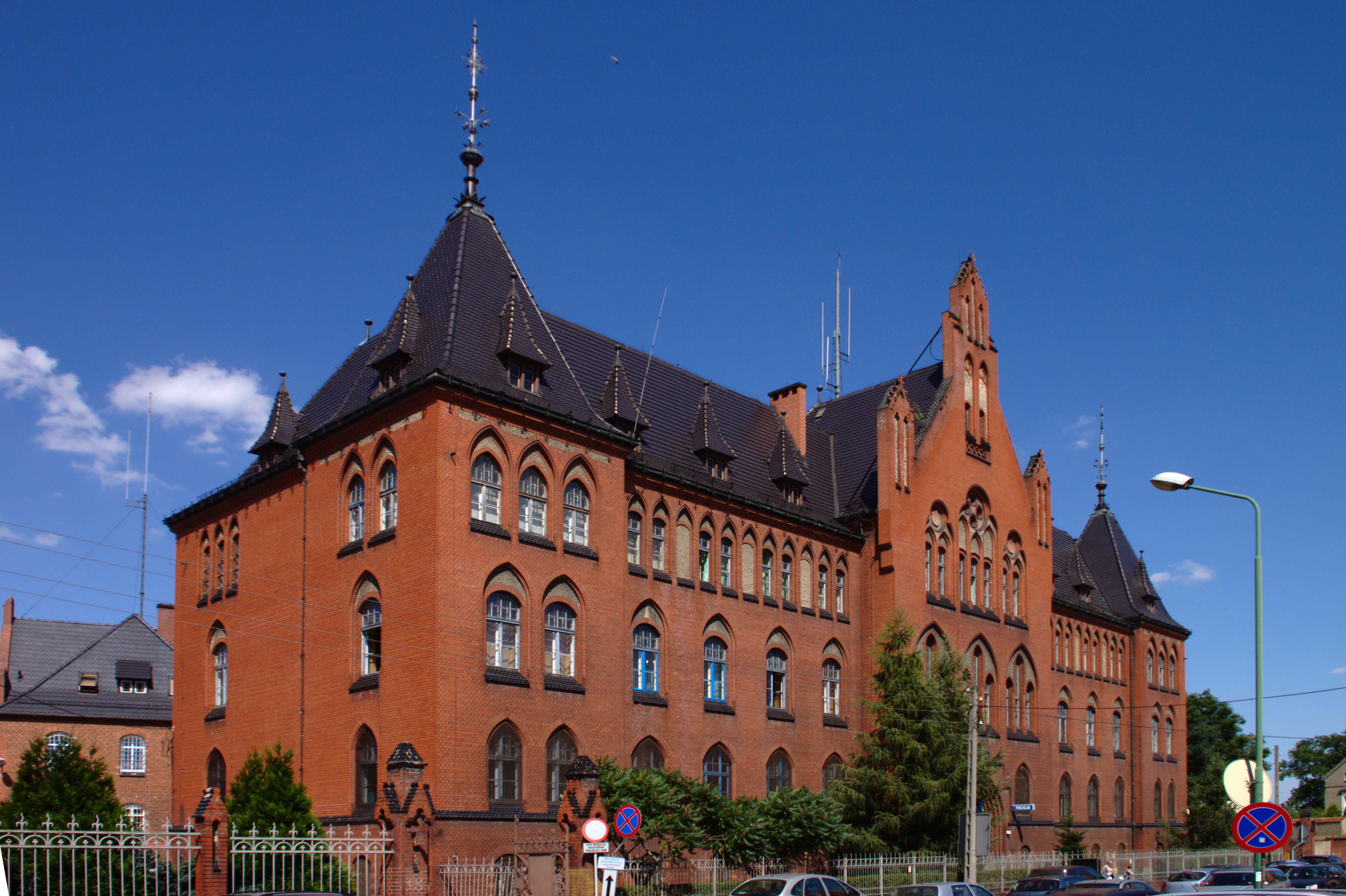 Police headquarters in Dzierżoniów, Poland